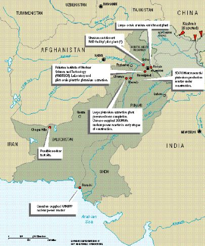 Tracking Nuclear Proliferation, Pakistan. Adapted from the Carnegie Endowment for International Peace, Tracking Nuclear Proliferation, 1995.